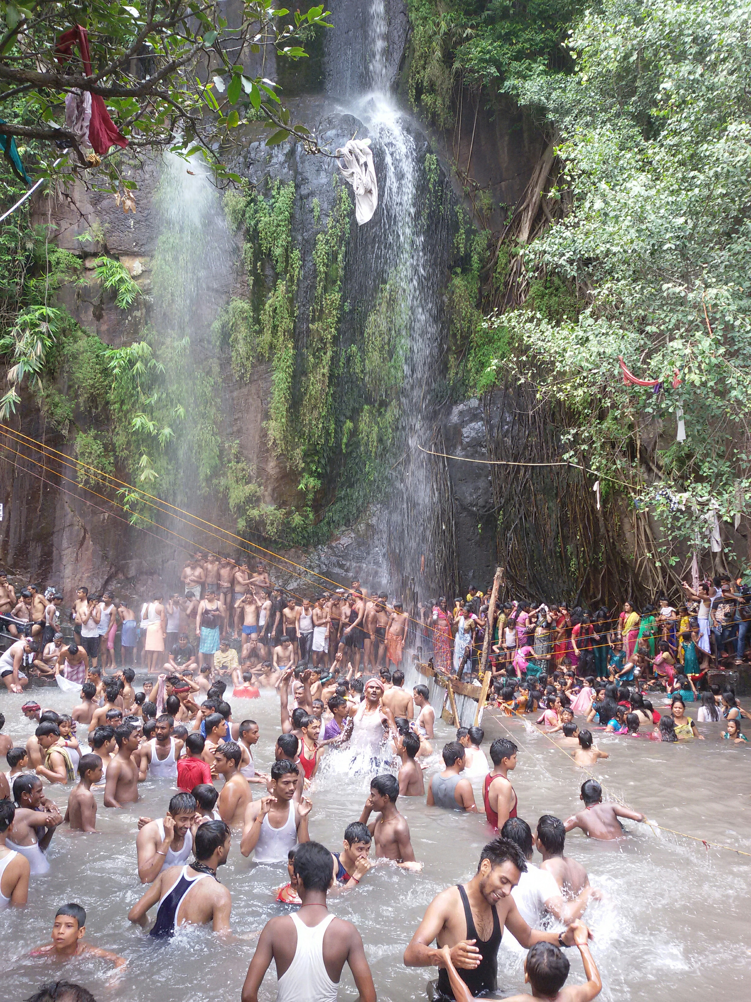 Kakolat waterfall is situated in Nawada, Bihar which is the place for tourist attraction in summer season. This is also known as Bihar sital fall due to water of this waterfall is too cold.